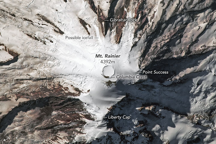 Mount Rainier is the tallest mountain in the Cascade Range, standing 14,410 feet (4,392 meters) above sea level. Viewed from the side, its highest point might appear to be Point Success, Liberty Gap, or the crater rim. The nadir view, however, gives a clear view of Columbia Crest—a small mound of snow north of the crater rim, and the mountain’s true highest point. The nadir perspective also provides a clear view of the volcano’s crater. Black rocks ring the snow- and ice-filled crater, which measures more than 1,000 feet (300 meters) across. This clearly defined crater is ringed by a second, less distinct crater. With 25 named glaciers flowing down its flanks and patches of perennial snow, the mountain stays white year-round. In some areas, ice is forced around huge, long walls of rock known as “cleavers”; one of the most prominent is Gilbraltar Rock. Scientists have documented the gradual loss of the mountain’s perennial ice, which lost almost 2 percent of its area between 2009 and 2015. Not all changes are gradual. Just two days before this photograph was acquired, an icefall on Ingraham Glacier sent blocks of ice and rubble careening down 1,000 vertical feet (300 meters) along a popular climbing route. The event, large enough to be detected on seismographs, occurred at night and no climbers were injured. The modern mountain is the result of about half a million years of growth amid periods of volcanic activity. Cascade Range volcanoes, including Mount Rainier, are the result of oceanic crust sinking below North America, causing the release of water and melted rock. During the past 2600 years the mountain has erupted about a dozen times, the largest of which occurred about 2200 years ago. Small summit explosions were last reported in 1894, but have not been confirmed.